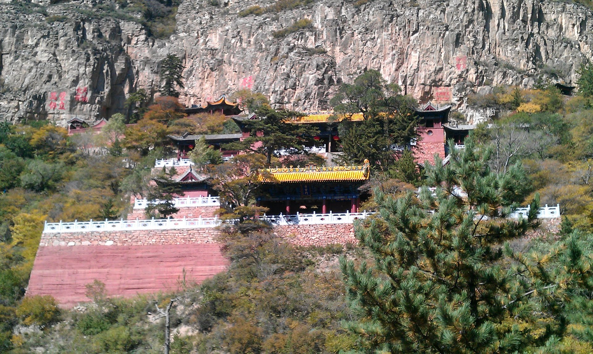 Mount Heng (Shanxi)